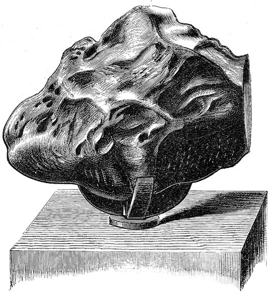 Campo del Cielo meteorite in British Museum